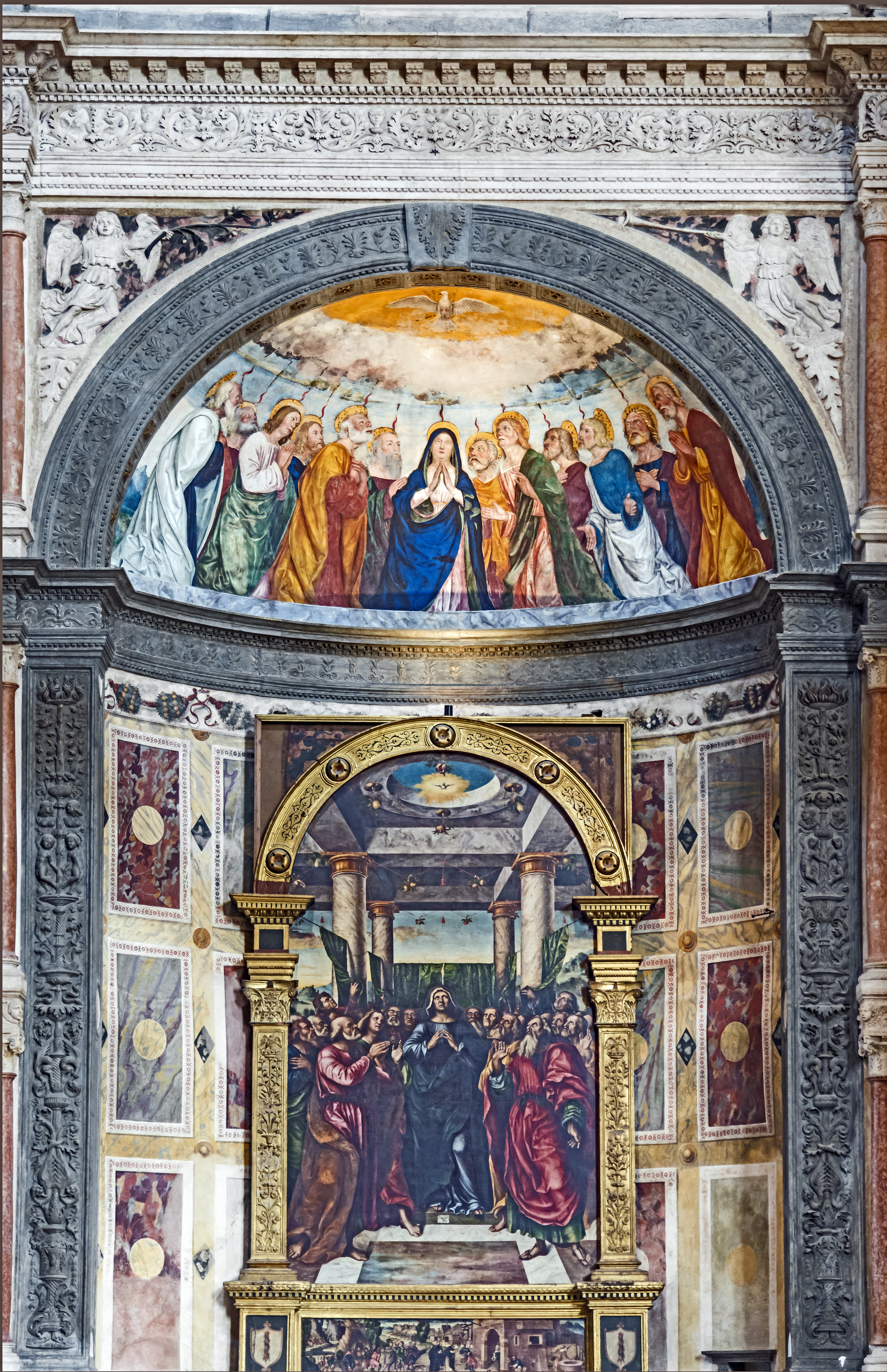 Basilica Santa Anastasia. Altar Miniscalchi 1436. The table of the altarpiece the descent of the Holy Spirit is the work of Niccolò Giolfino. Lunette byFrancesco Morone.